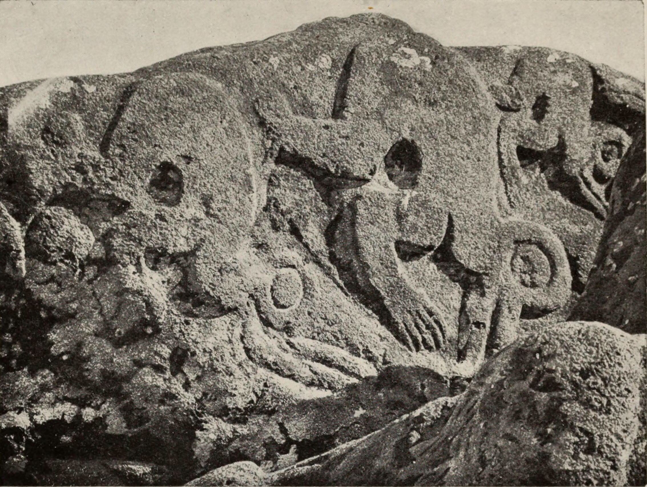 A Rock At Orongo Carved With Figures Of Bird-Men. Sculptured surface, 6 ft. by 5 ft. Routledge's Mana expedition to Easter Island in 1914-15.